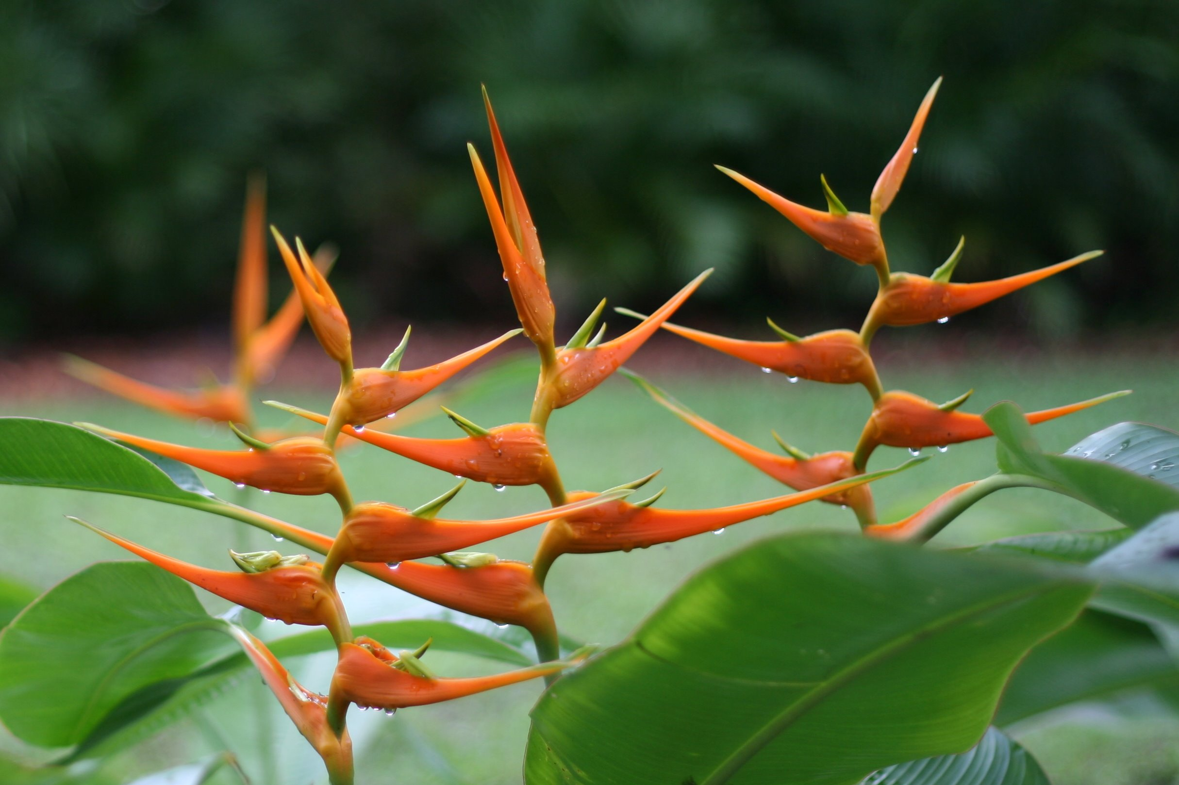 Heliconia latispatha blooms